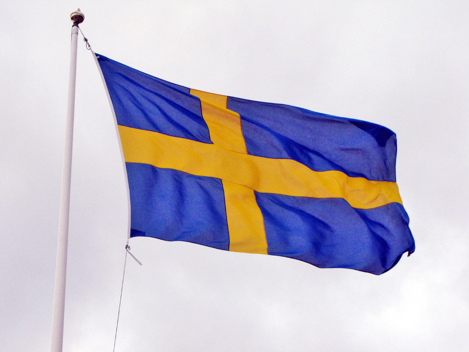 The flag of Sweden during a windy day.